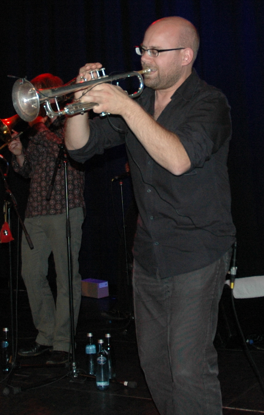 Amsterdam Klezmer Band trompeter Gijs Levelt at the Gloria Theater in Köln, Germany